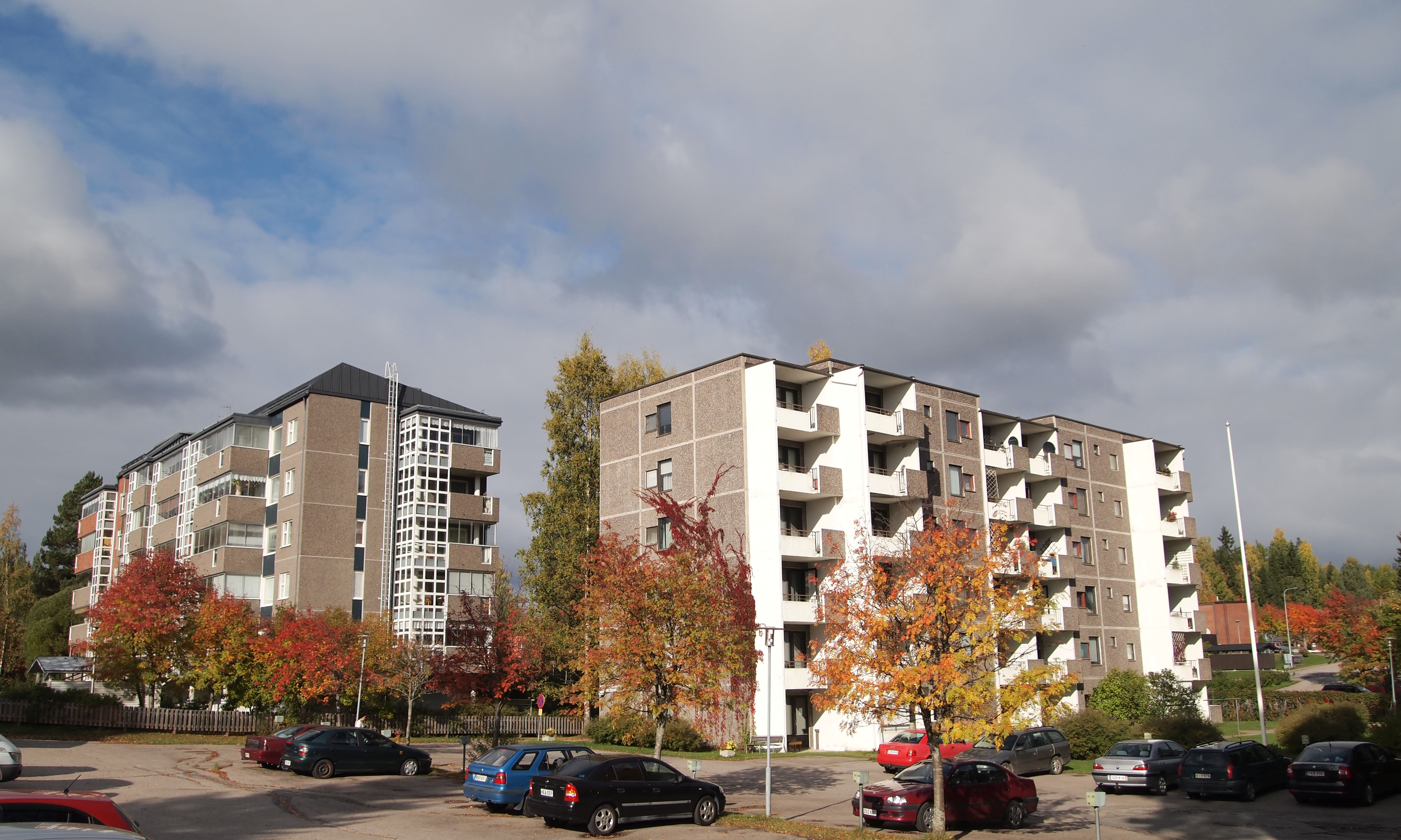 View of the buildings in the district Huhtasuo in Jyväskylä. This photograph was taken with an Olympus E-PL1